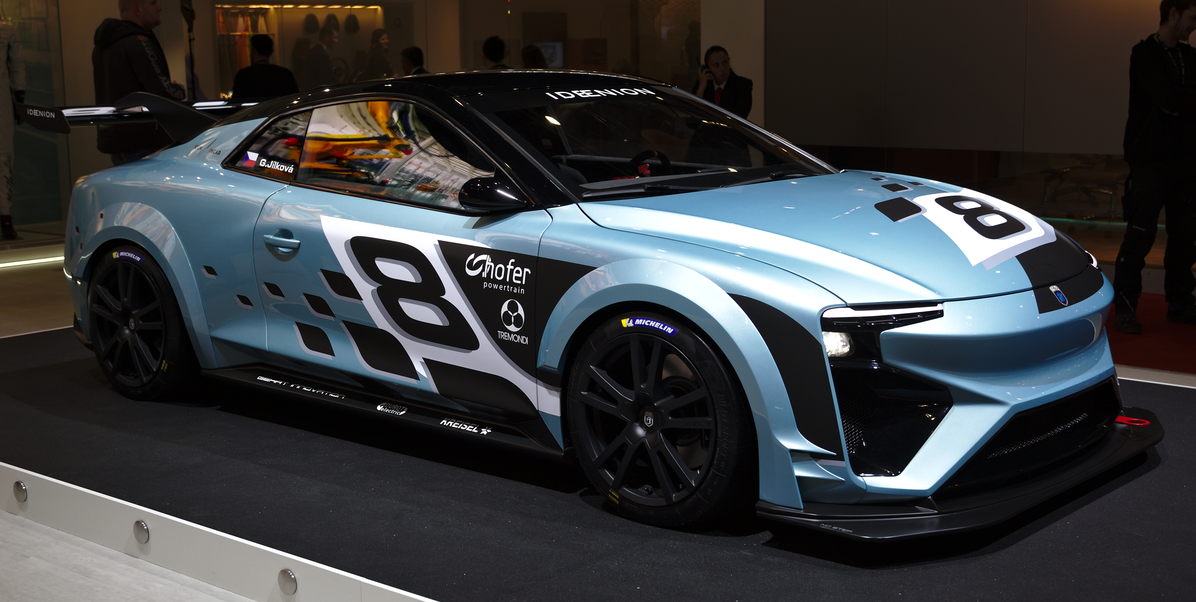 Gumpert Nathalie Race at Geneva Motor Show 2019